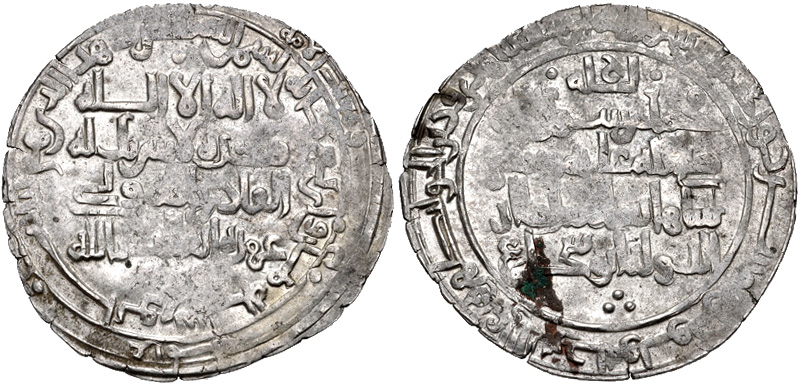 Coin of the Buyid ruler Sultan al-Dawla.